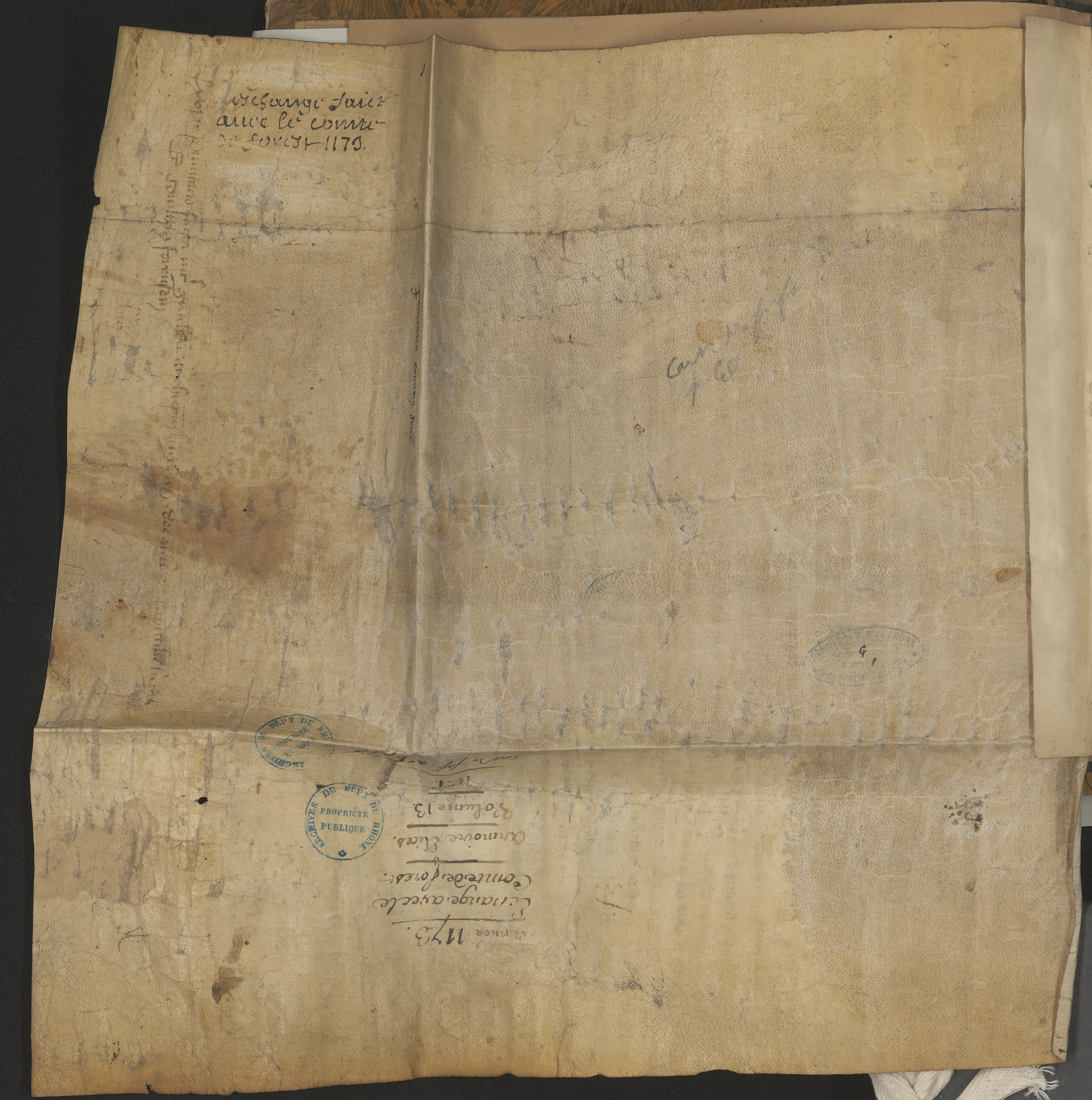 Exchange letter between the the cathedral chapter of Lyon and the Forez count, flipside, 1173.